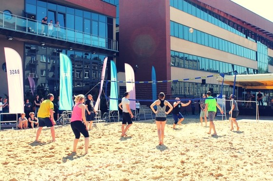 EkSocDay 2017